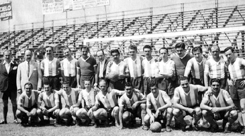 The Argentina national team that won the Copa América in Ecuador.